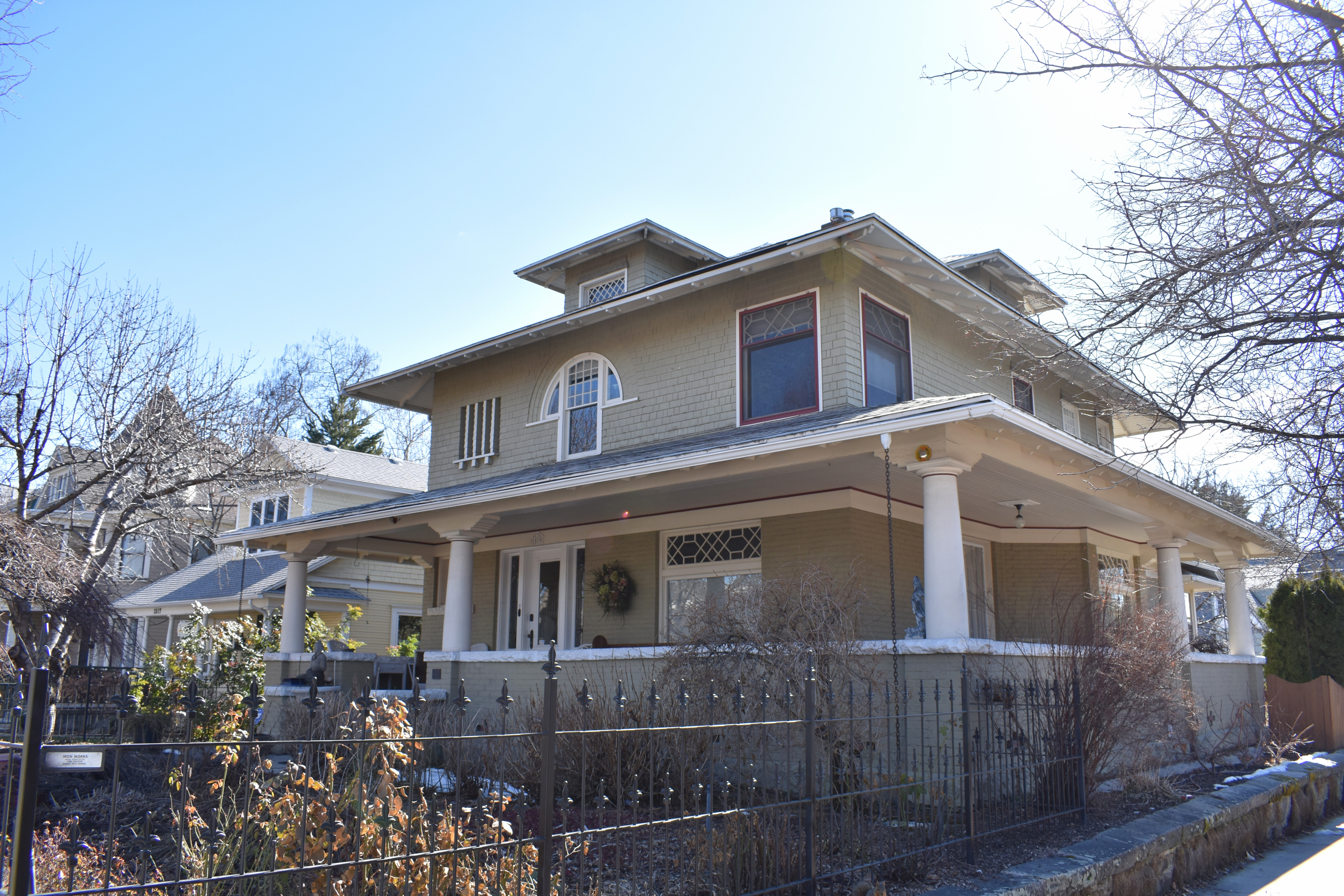 The Emerson and Lucretia Sensenig House (1905) in Boise, Idaho, was designed by Watson S. Vernon and is listed on the National Register of Historic Places.